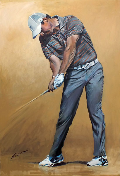 HSBC Abu Dhabi 2014- Rory McIlroy Swing Portrait